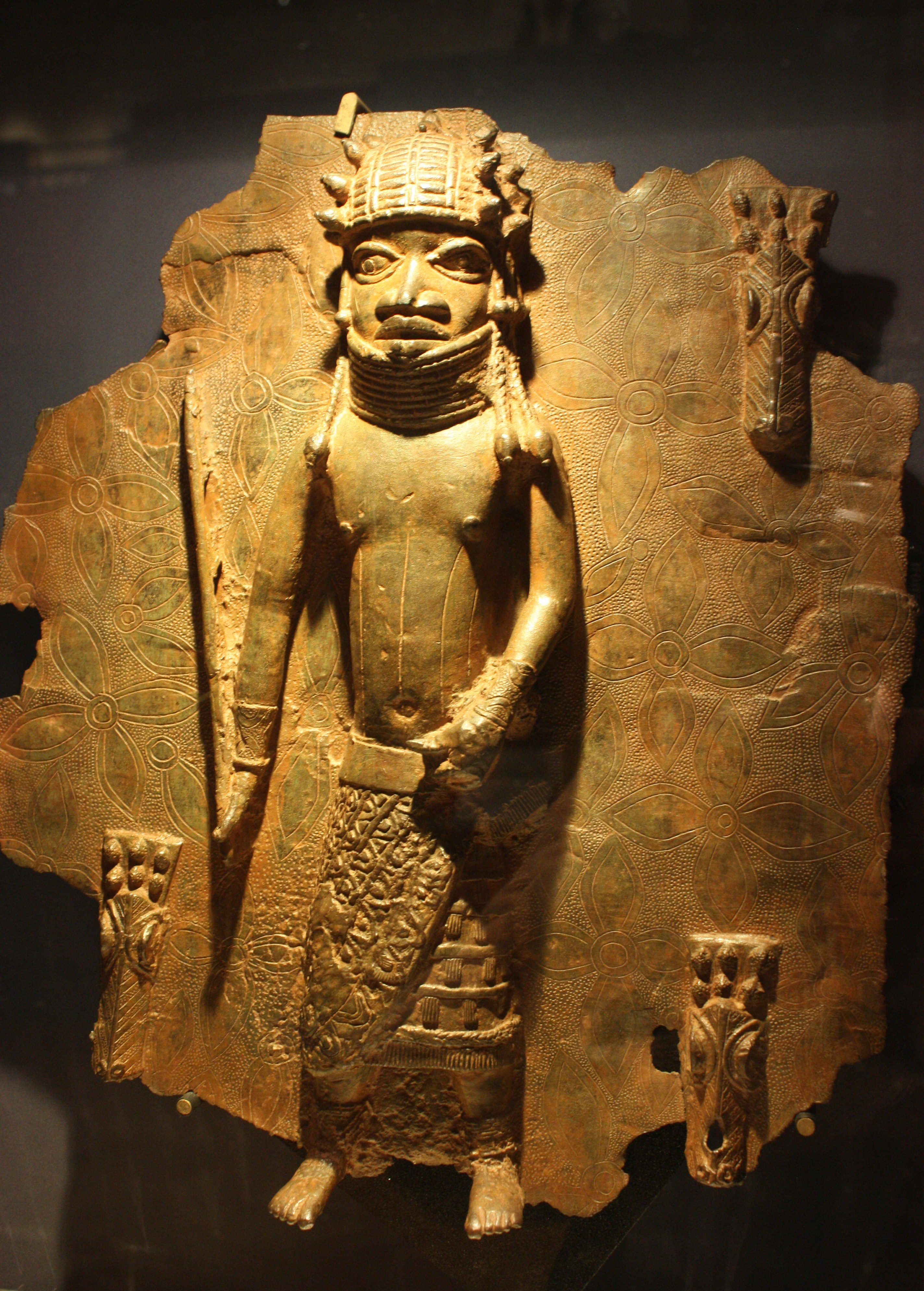 Brass plaques were the medium and mnemonic commissionedby varius Obas (Kings)for one or a combination the following reasons: To commemmorate significant historical events and enshrine the past in the present and the prsent in the recent past. To glorify the Oba (King) as well as the awe and the glamour of kingship. As altar and shrine pieces to lend meaning and visual support to shared religious beliefs, myths and traditions. -Joseph Eboreime Collection ID: 9.225. This photo was taken as part of Britain Loves Wikipedia in February 2010 by Valerie McGlinchey.